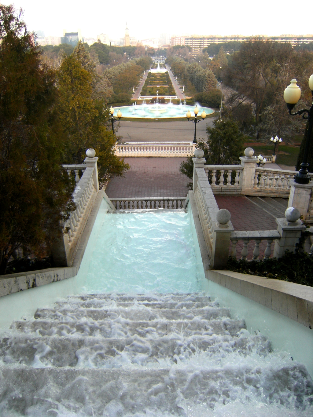 Zaragoza; A Parque Grande look